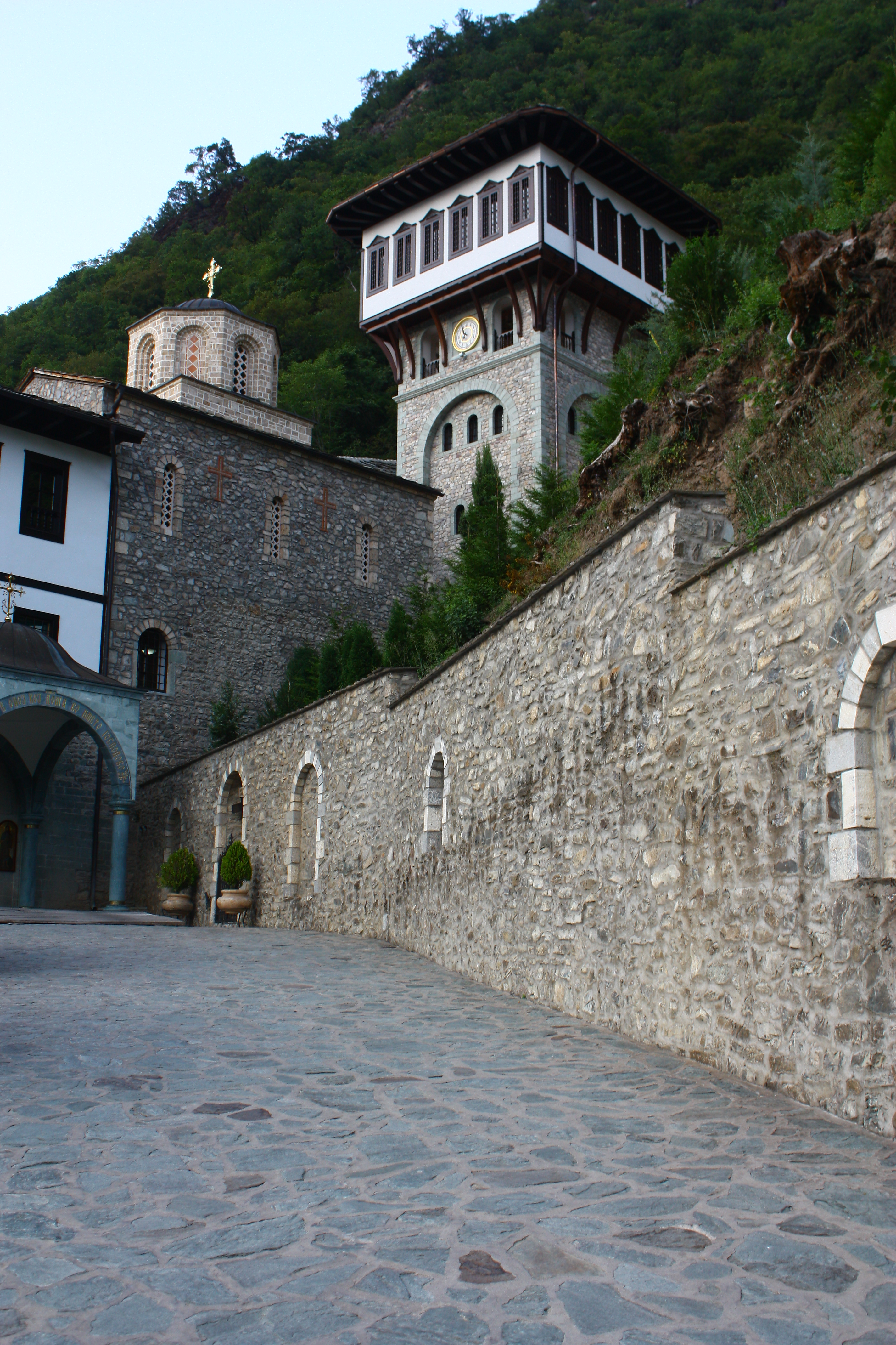 Bigorski Monastery, Macedonia